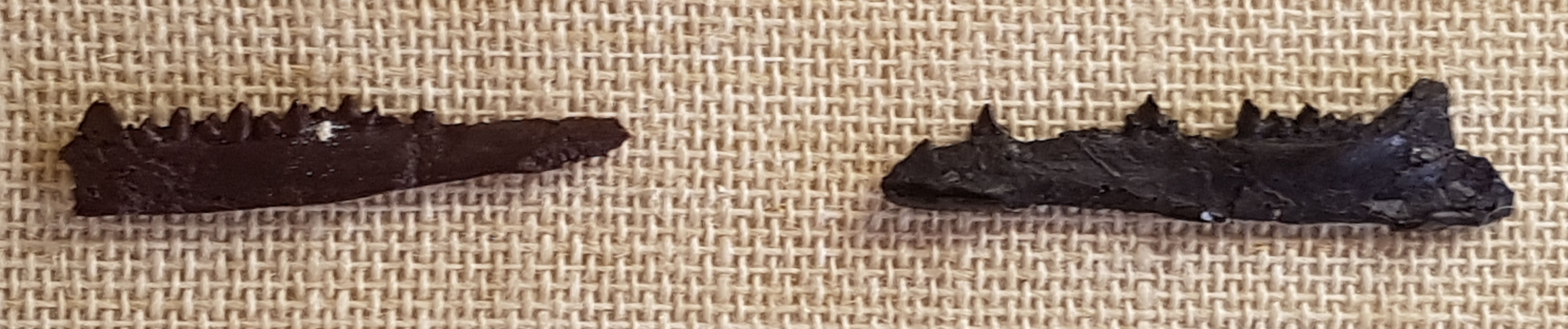 dentaries of Eurodexis from the Geiseltal, Germany, Middle Eocene; took the picture in the Geiseltalmuseum, Halle (Saxony-Anhalt)